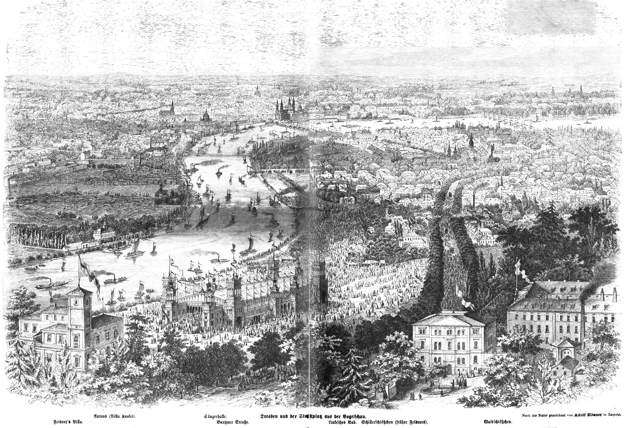 caption: "Dresden und der Sängerplatz aus der Vogelschau.Nach der Natur gezeichnet von Adolf Eltzner in Leipzig.Felsner’s Villa. Antons (Villa Kaskel). Sängerhalle. Bautzner Straße. Linkesches Bad. Schillerschlößchen (früher Felsners). Waldschlößchen."